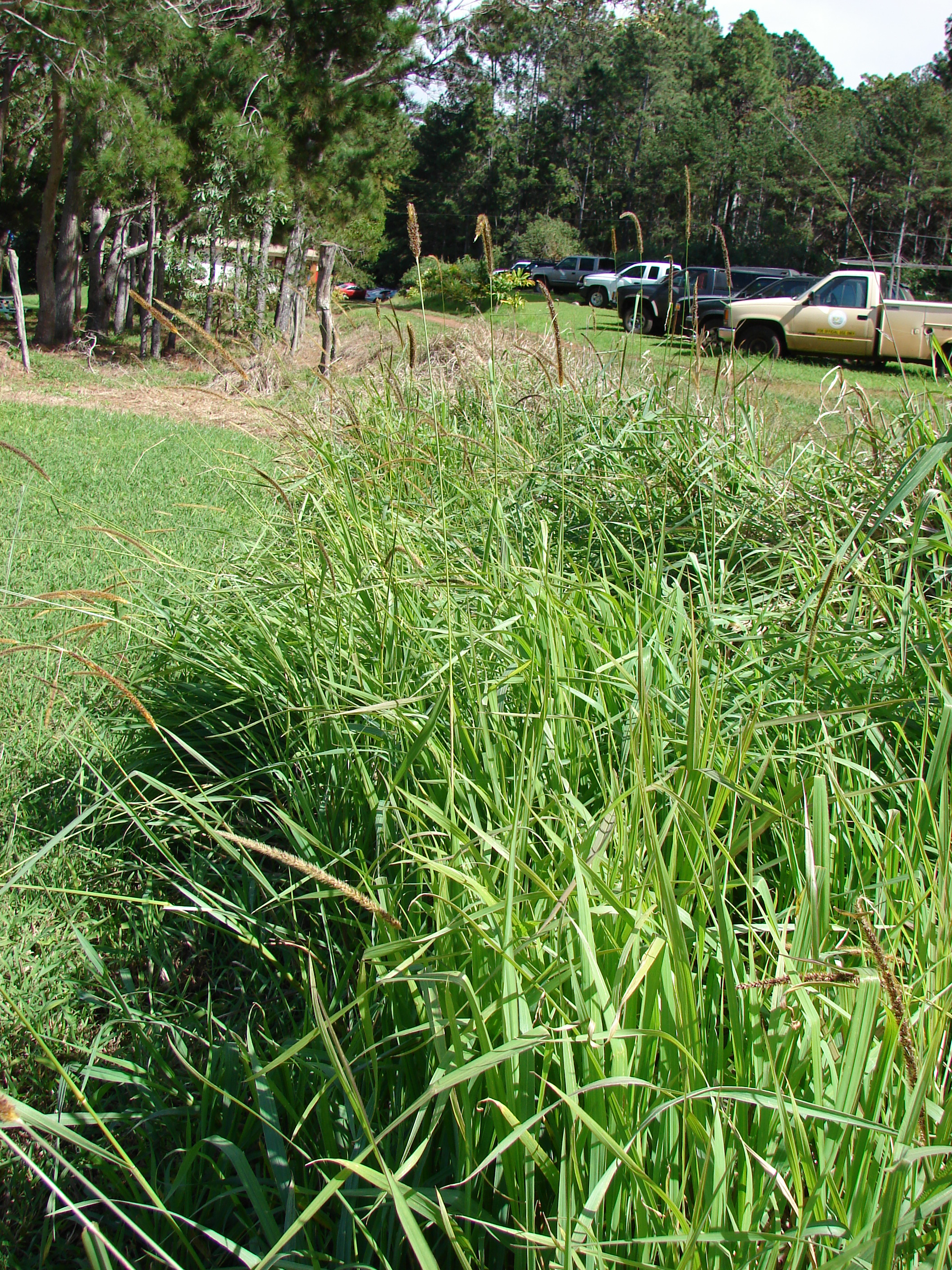 Setaria sphacelata (habit). Location: Maui, MISC LZ Piiholo